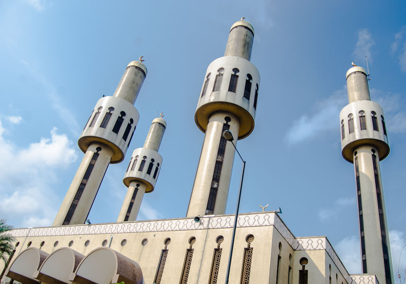 Lagos Central Mosque (Lagos Island) view into the sky, worship center/building for Muslims